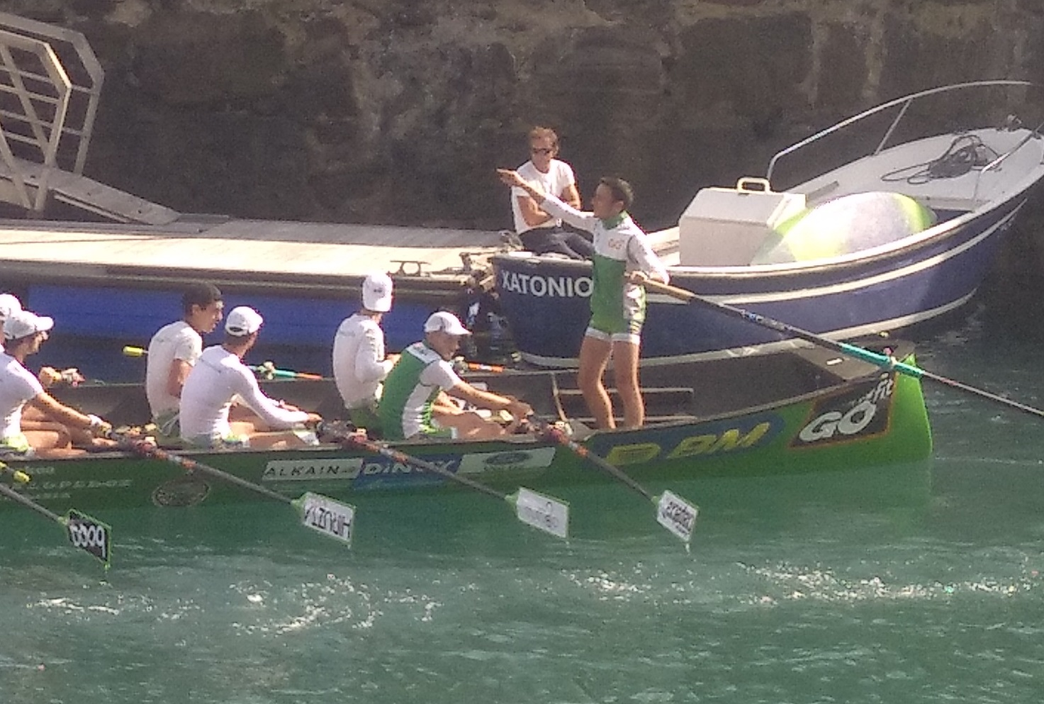 Joseba Amunarriz, patron of Hondarribia Arraun Elkartea